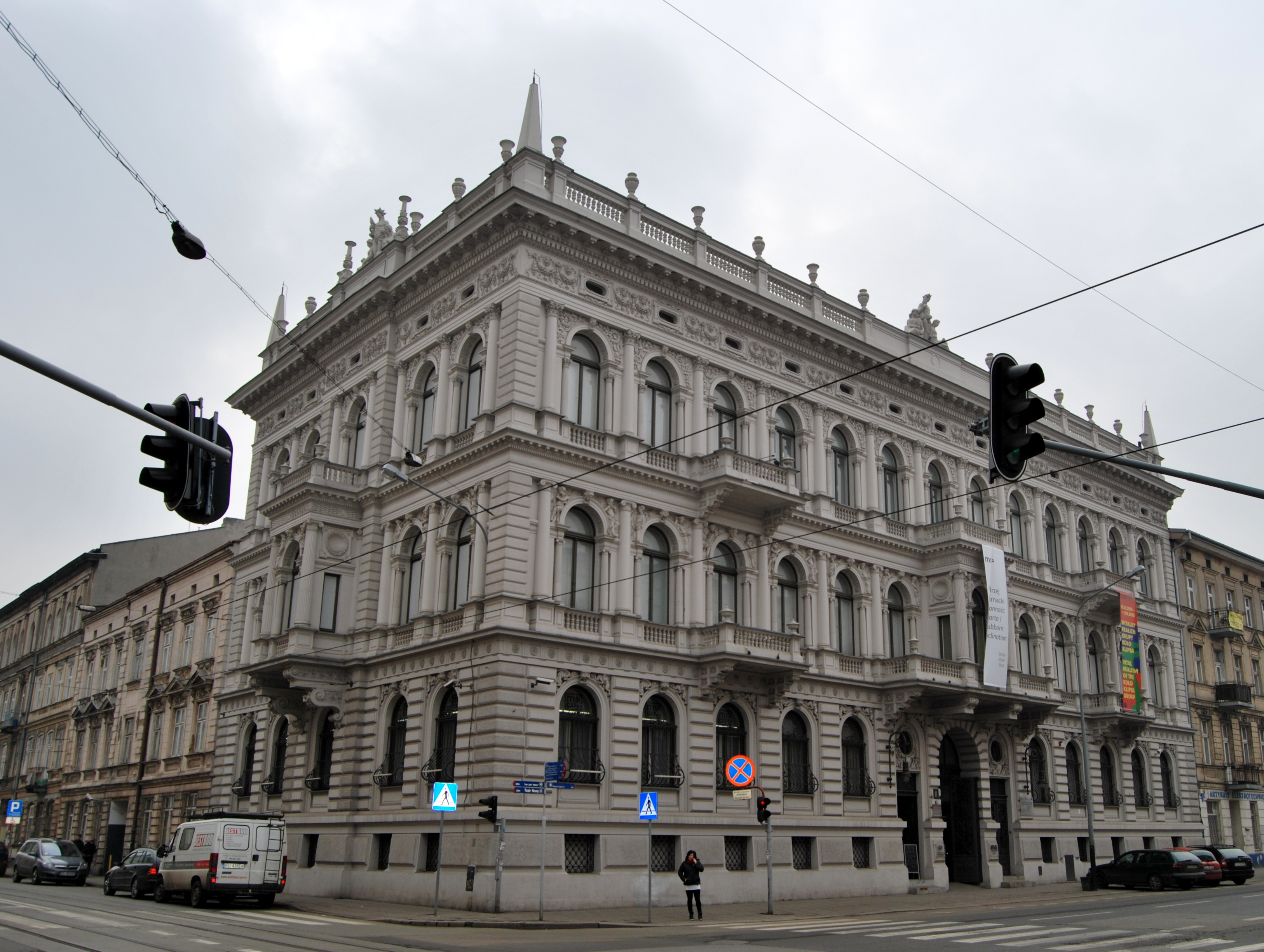 Maurycy Poznański's palace